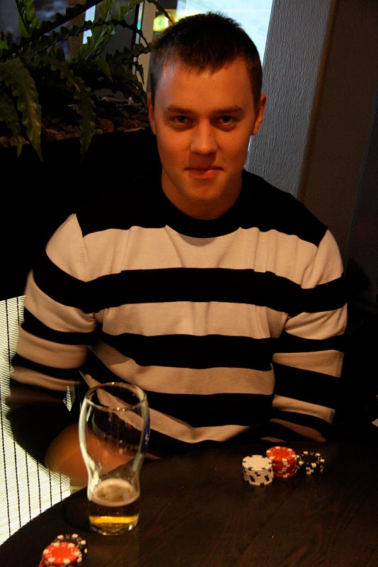 Andres allsalu